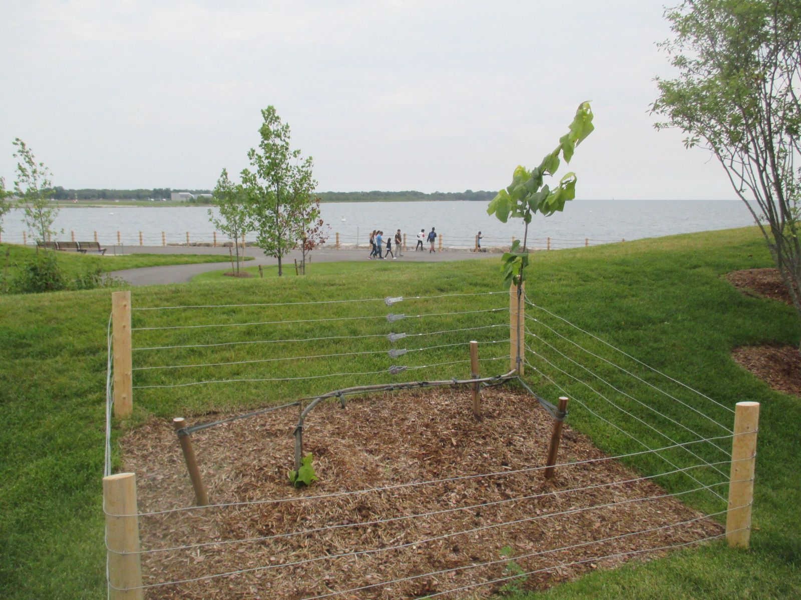 Trillium Park, Toronto - Marker Tree, a traditional First Nations' way of navigation, created by forcing a young trees to each grow with two 90-degree bends in the trunk.